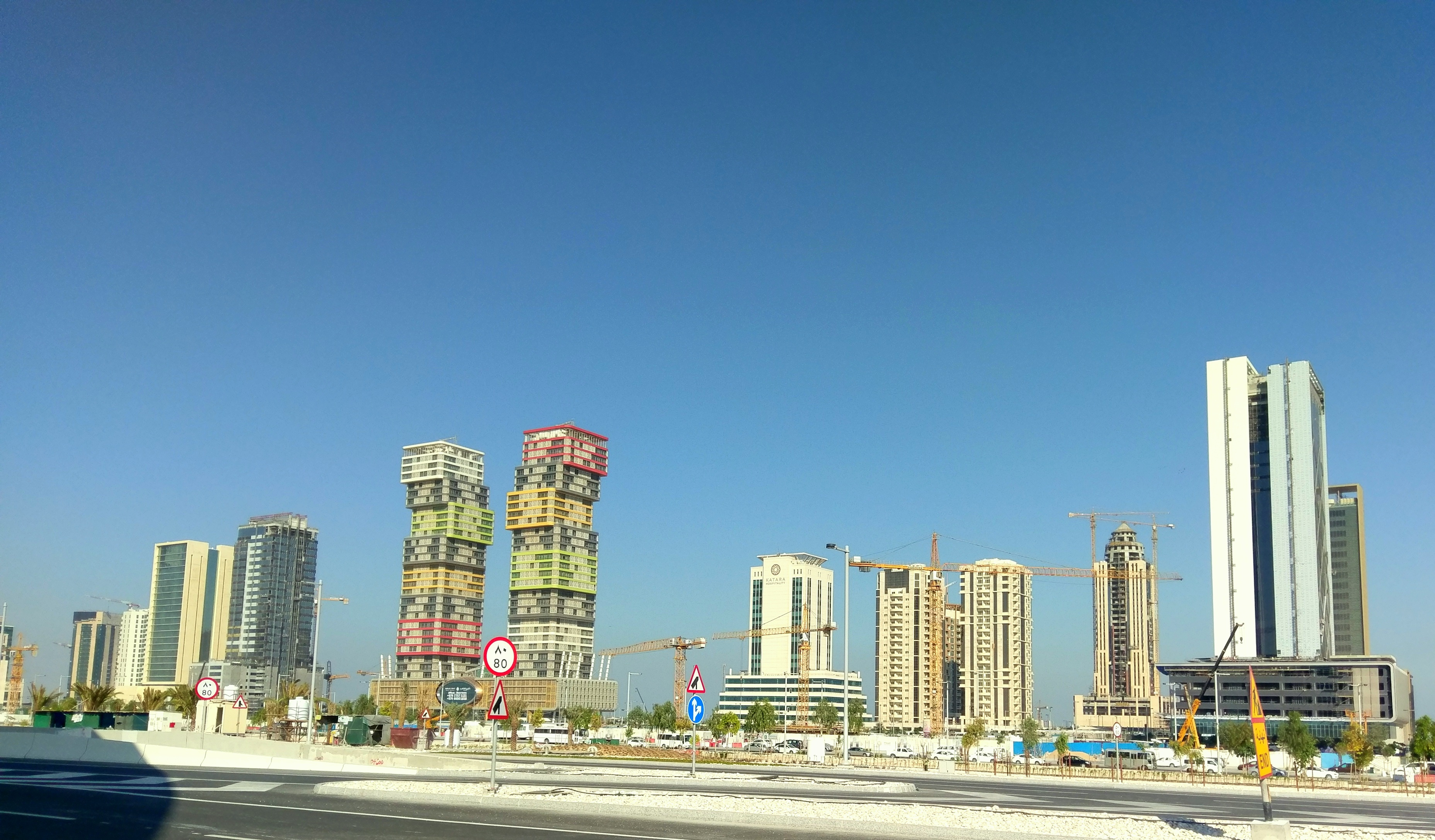 Lusail, Qatar